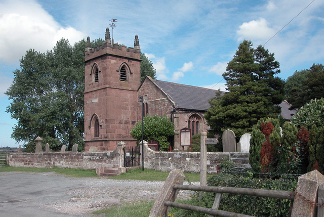 Photograph